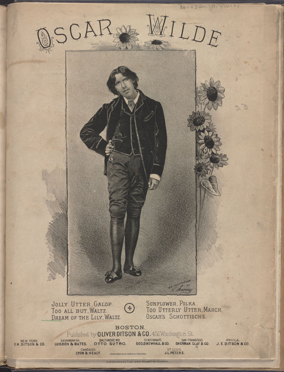 Accession No.: 07_07_000055 Call Number: no. 23 of **M.450.164 Lithographer: Bufford, John H. & Sons Title of Lithograph: Oscar Wilde Composer: Uschman, Carl Title of Composition: Dream of the Lily Waltz Place of Publication: Boston Publisher: Oliver Ditson & Co. BPL Department: Music Flickr data on 2011-08-05: Camera: Sinar AG Sinarback 54 FW, Sinar m Tags: dc:identifier=07_07_000055 License: CC BY 2.0 User: Boston Public Library BPL